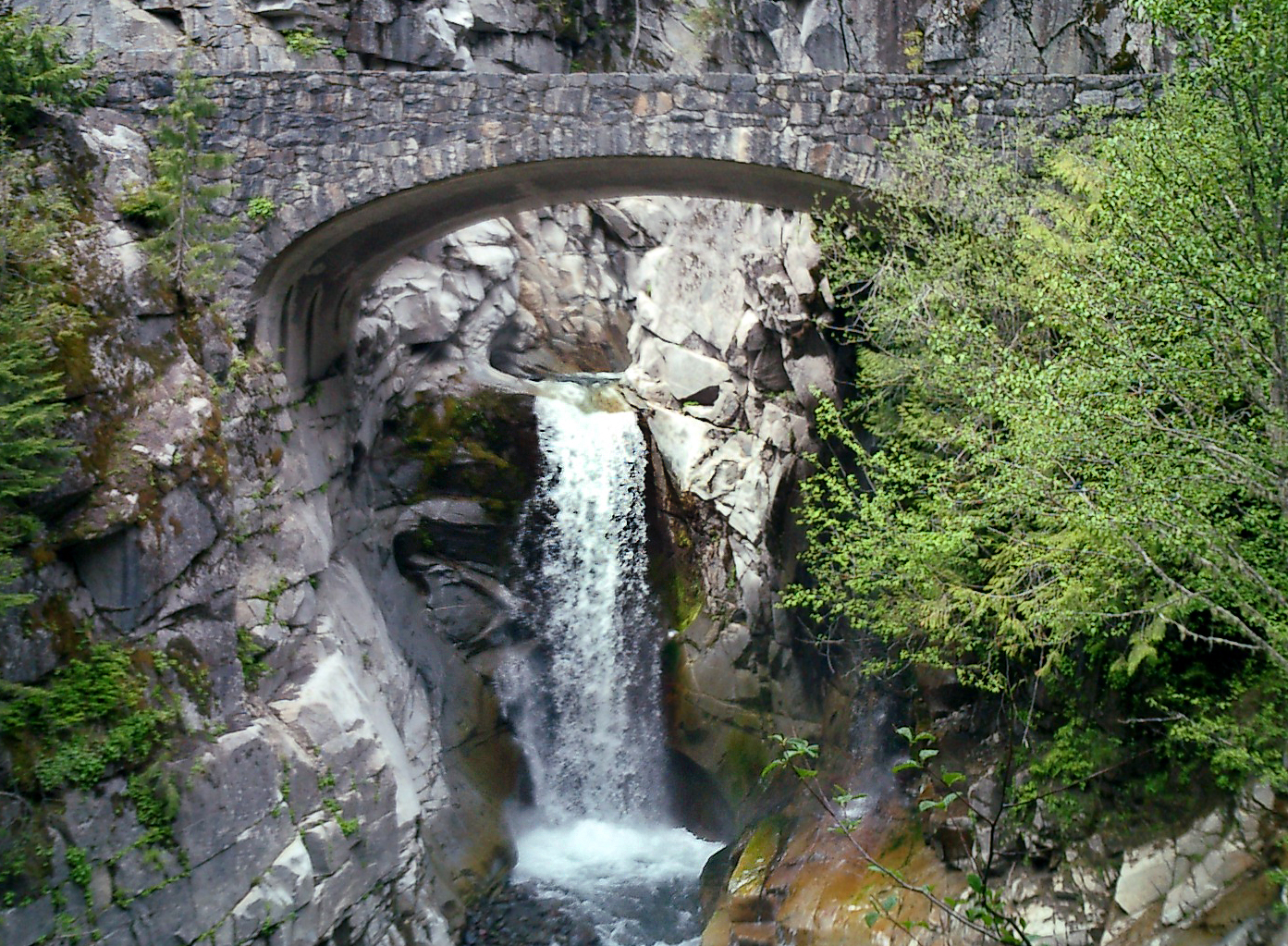 Christine Falls in Mount Rainier National Park, in the US state of Washington